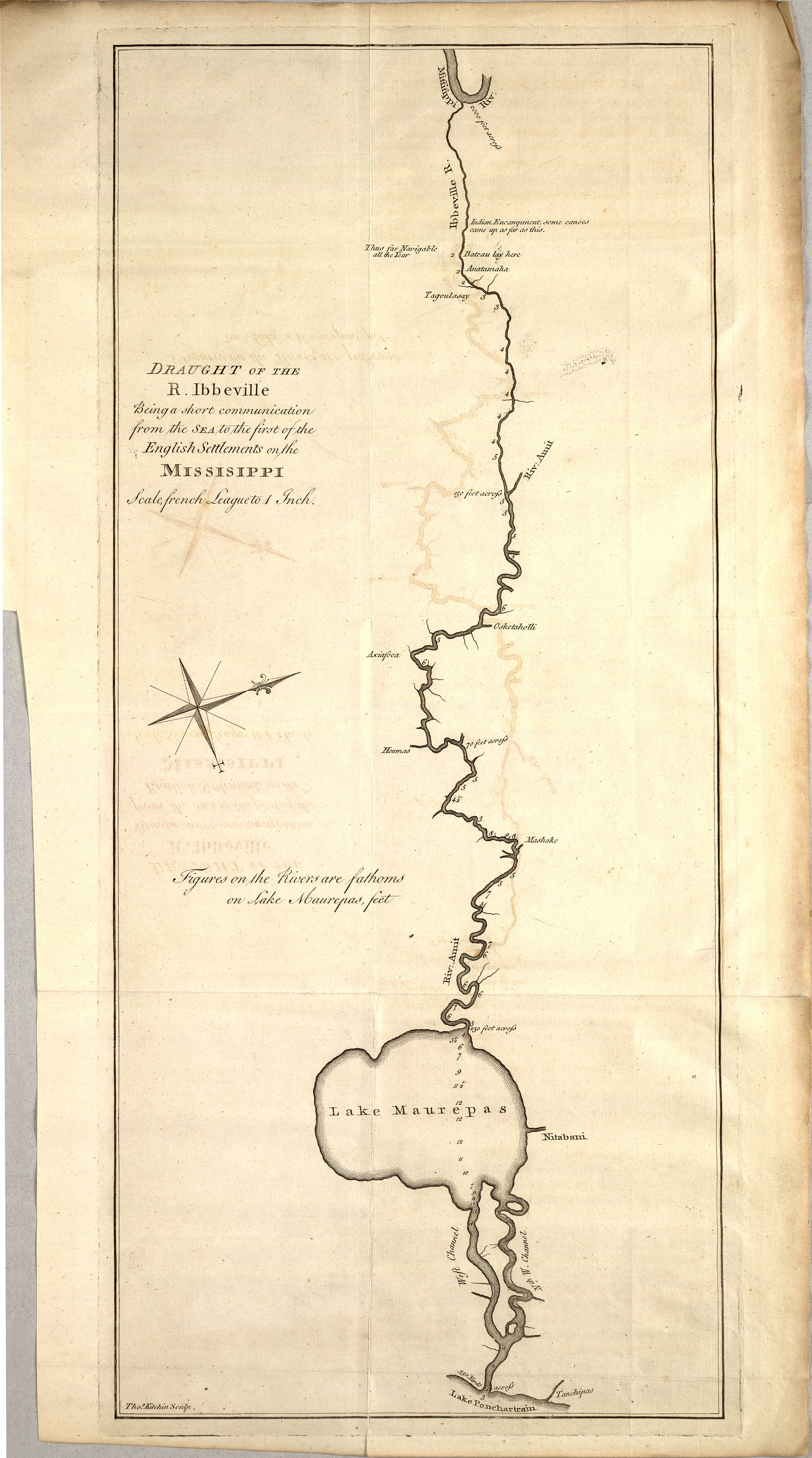 Available also through the Library of Congress web site as a raster image.